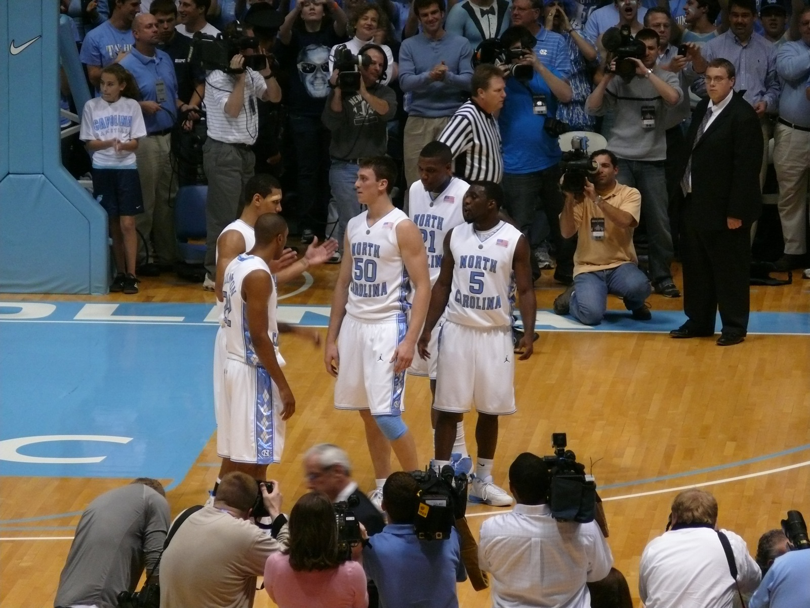 Tyler Hansbrough being congratulated after setting the new school scoring record.